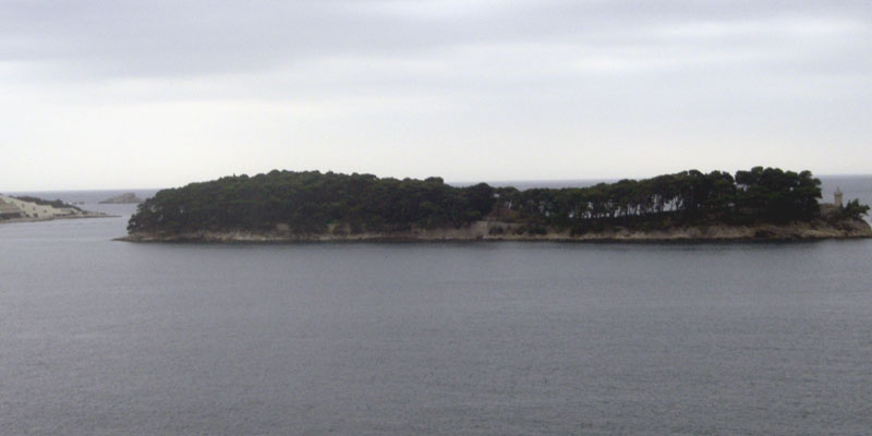 Island of Daksa, near Dubrovnik, Croatia